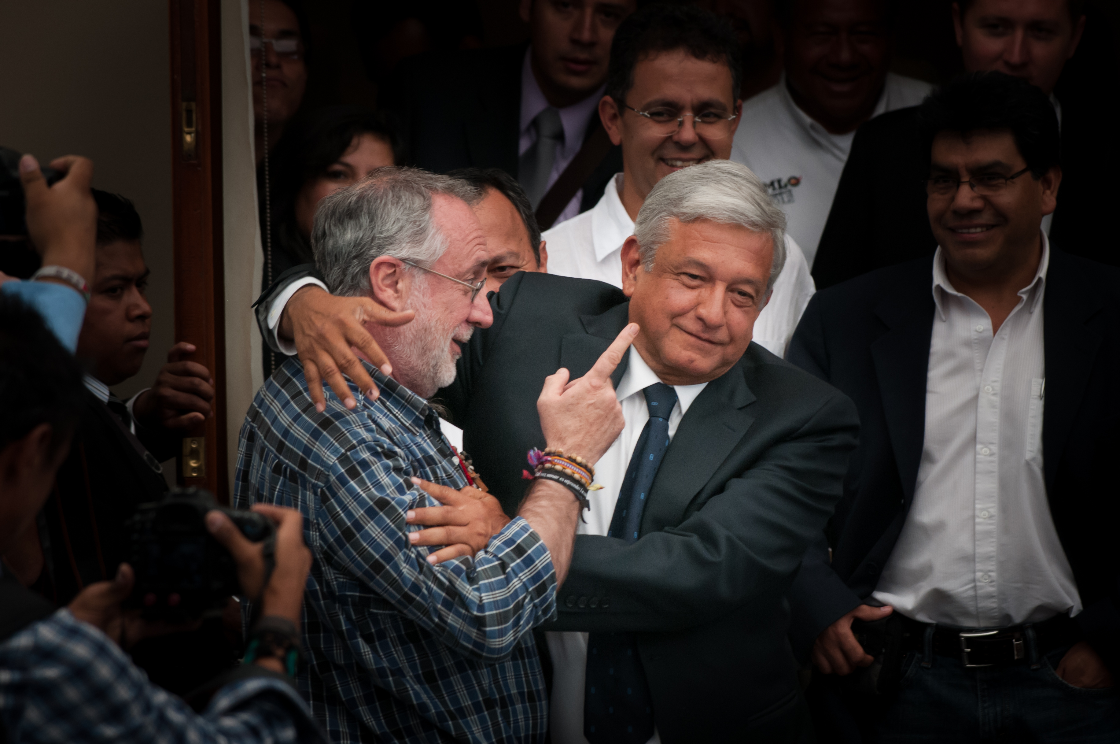 Javier Sicilia, Mexican peace activist (left) with Andrés Manuel López Obrador (right), former presidential candidate, just after refusing a kiss in the cheek.